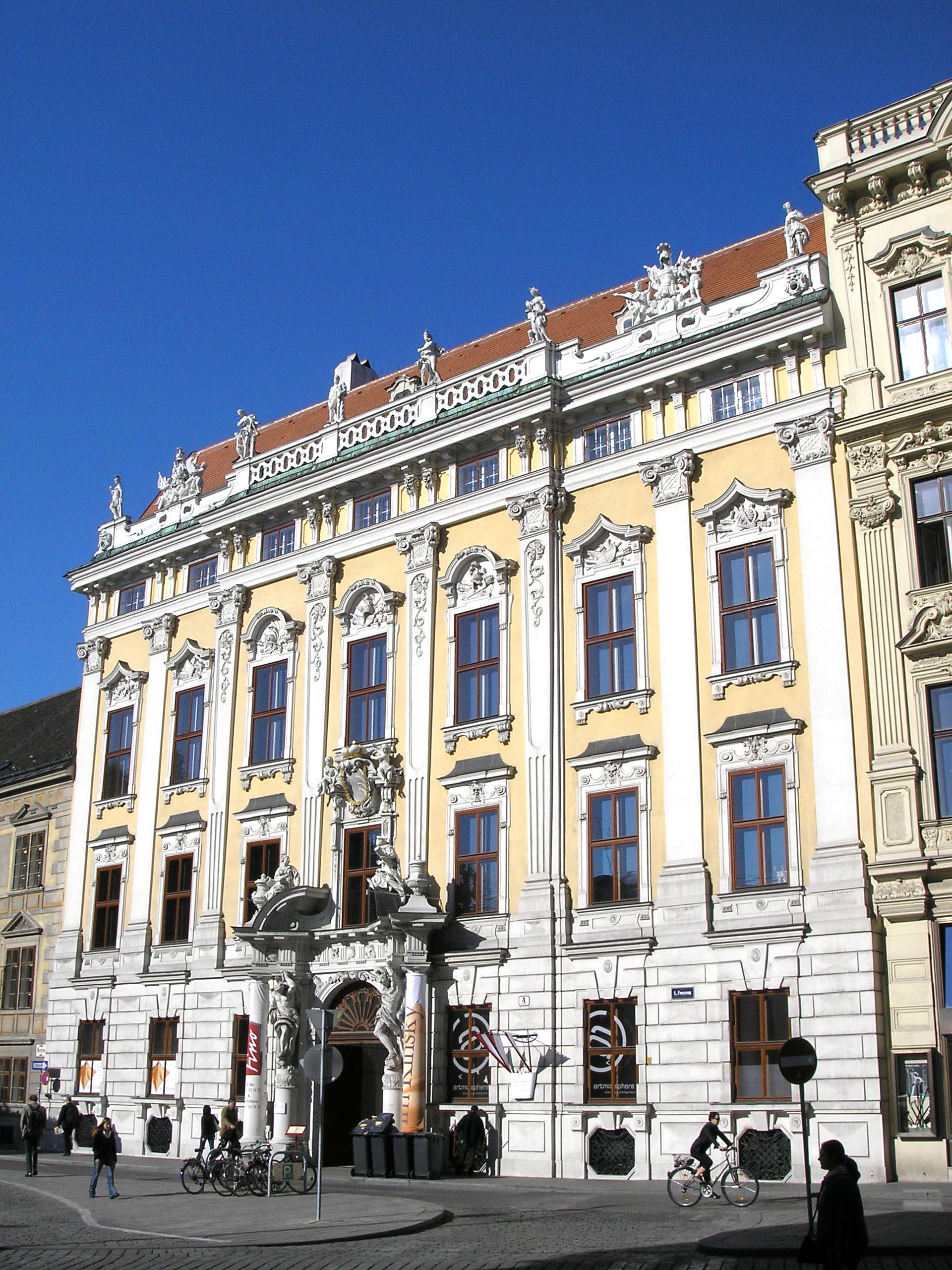 The Palais Kinsky at the Freyung in Vienna. Built in the baroque era for the noble Kinsky von Wichnitz und Tettau family.